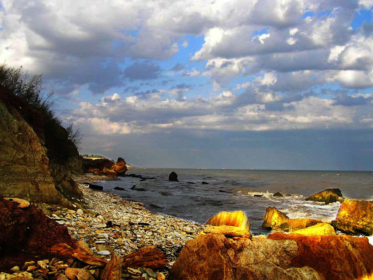 Shore of the Black Sea near Odessa